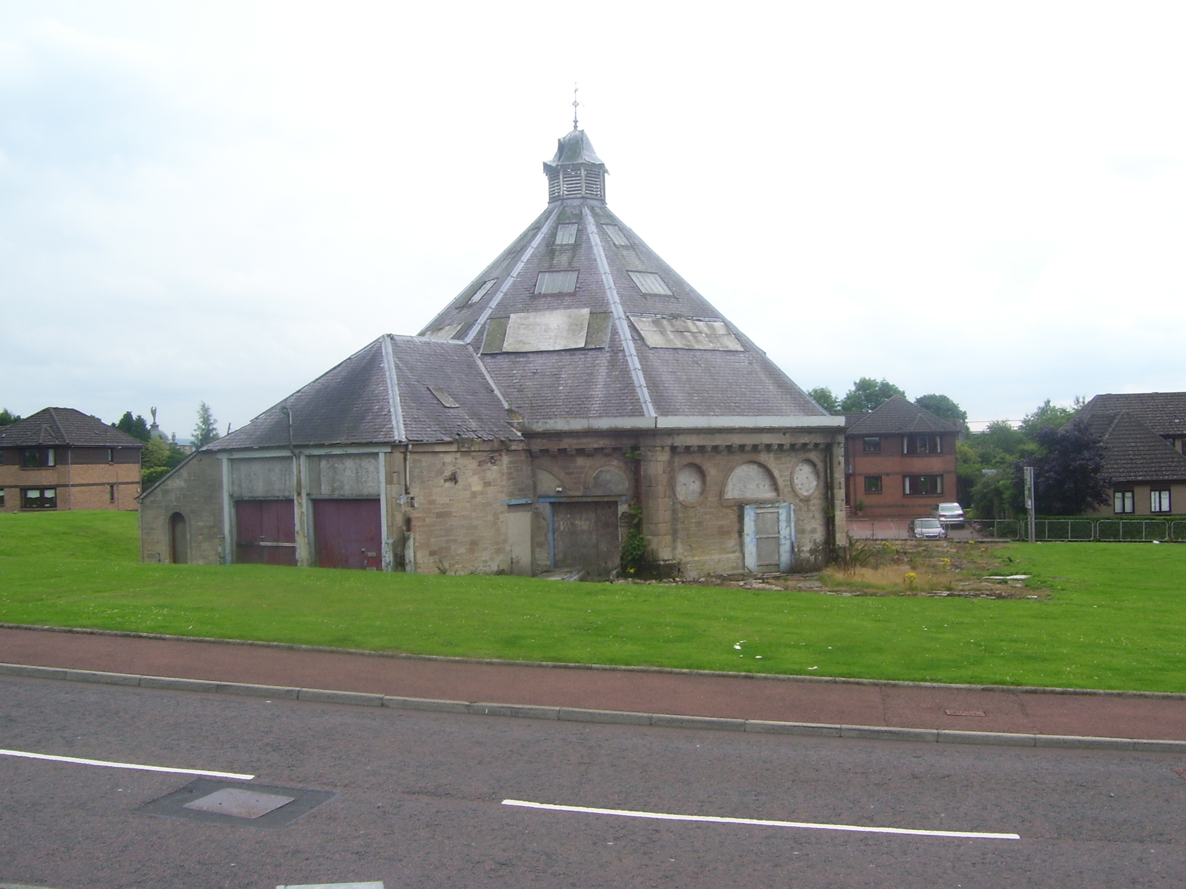 Lanark Farmers Market